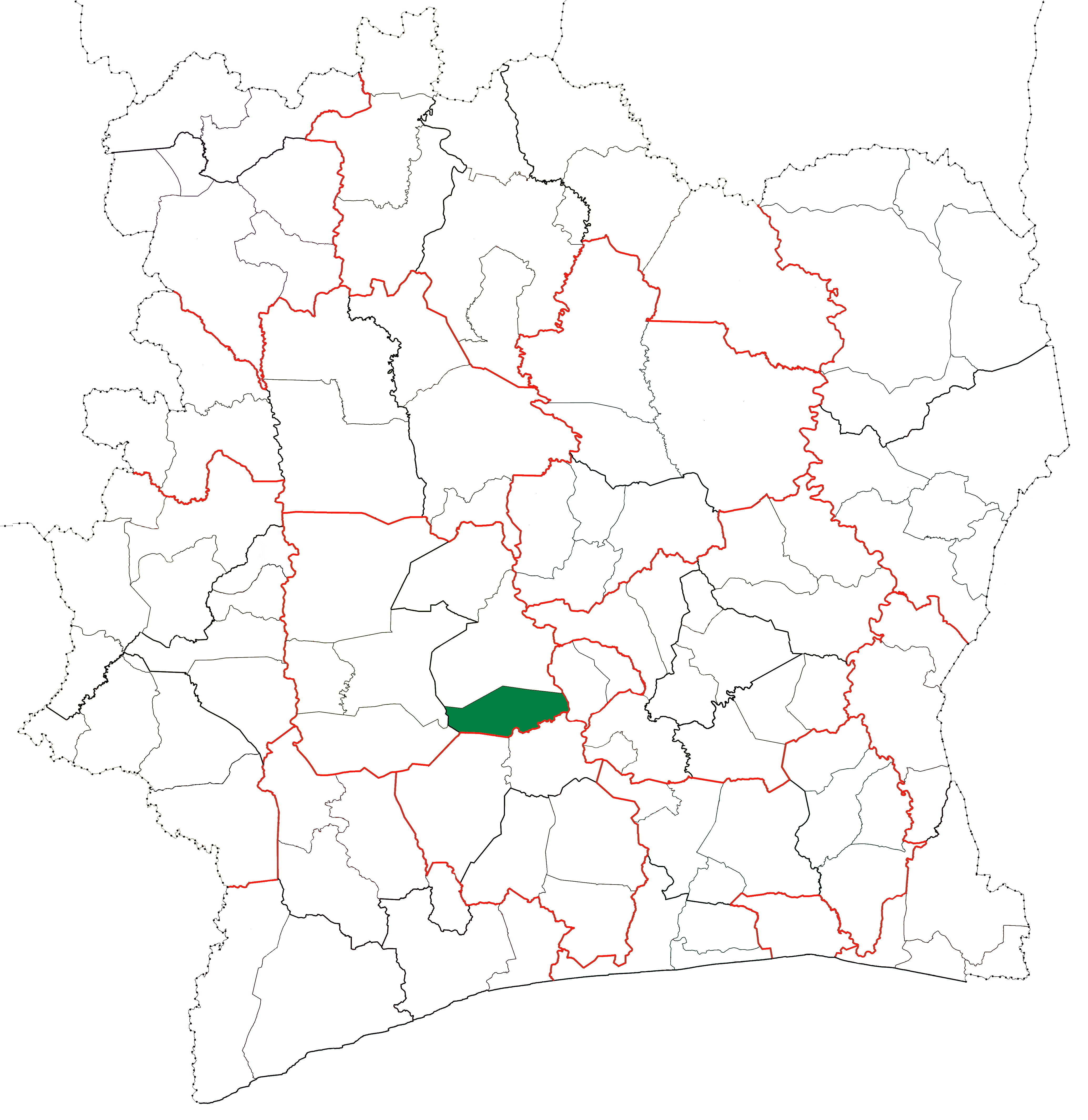 Locator map for Sinfra Department in Côte d'Ivoire.